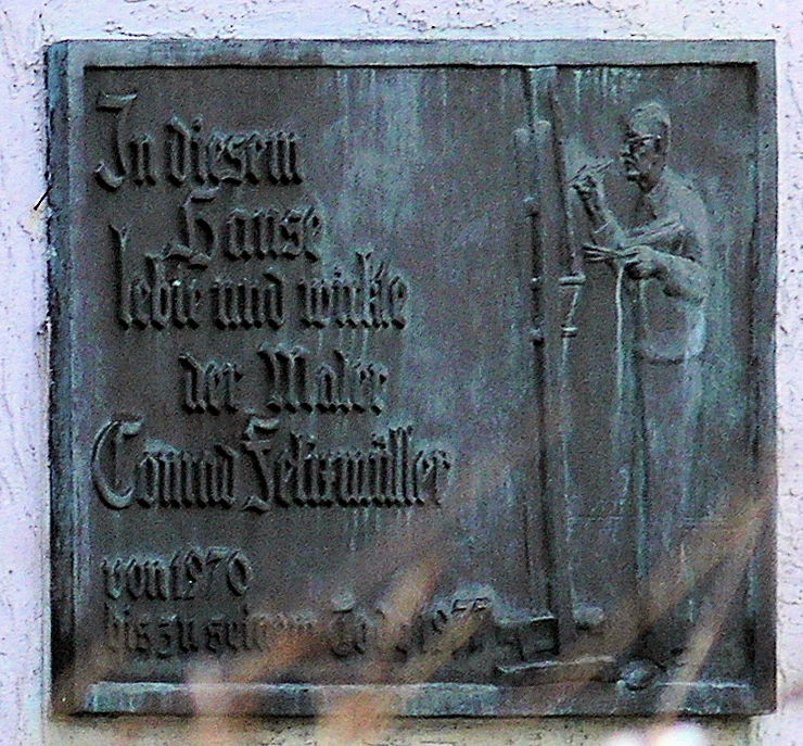 Memorial plaque, Conrad Felixmüller , Kösterstraße 3, Berlin-Zehlendorf, Germany Koordinate:52°25′32″N 13°14′46″E / 52.42556°N 13.24611°E